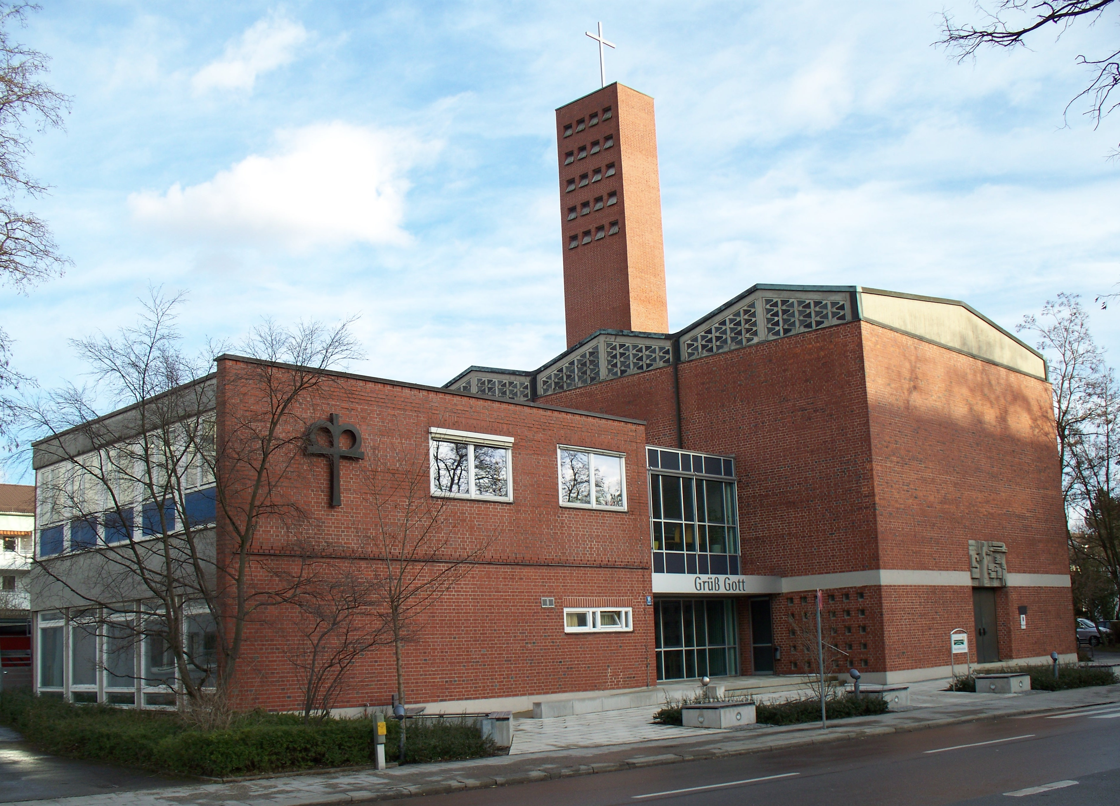 Building of Diakonie relief organization at Stanigplatz, Hasenbergl, Munich